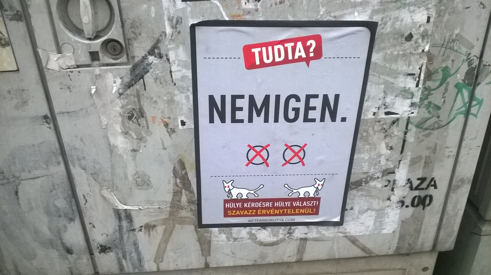 Two-tailed Dog Party, poster mocking the referendum of 2nd October 2016, showing the answer "NEMIGEN" (NOYES)